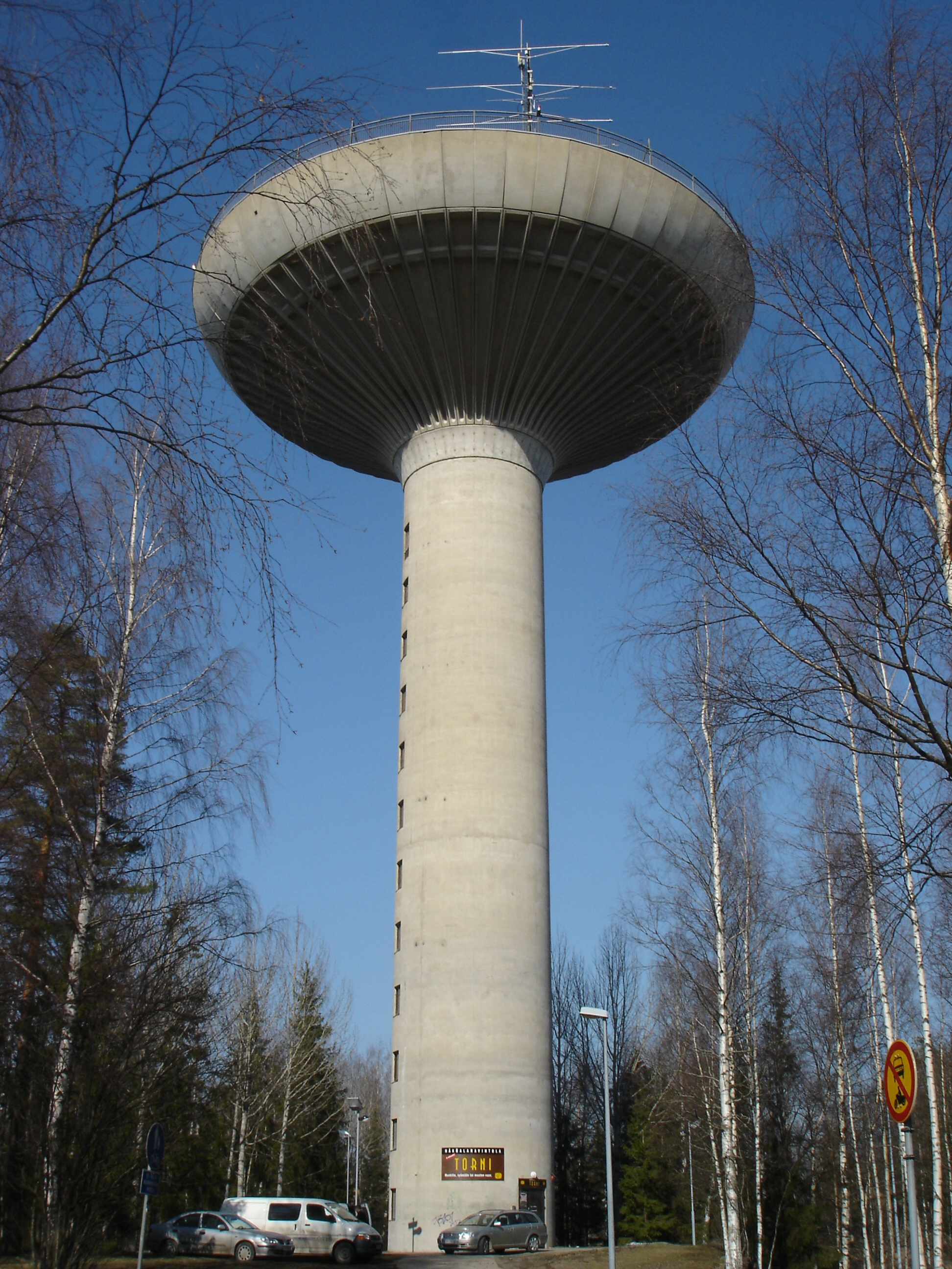 The water tower of Hervanta, Tampere, Finland.